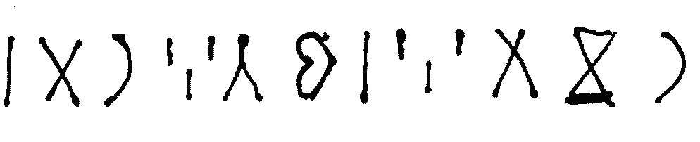 Drawing of the Steppean Rovas of Homokmegy-Halom